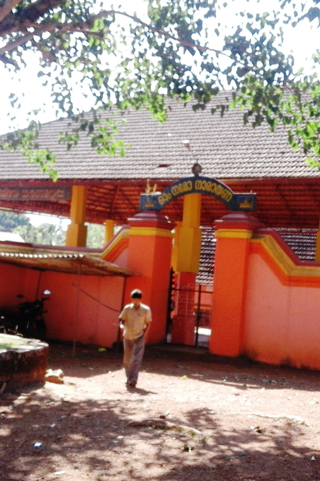 Alanalllur Ayyappa Temple